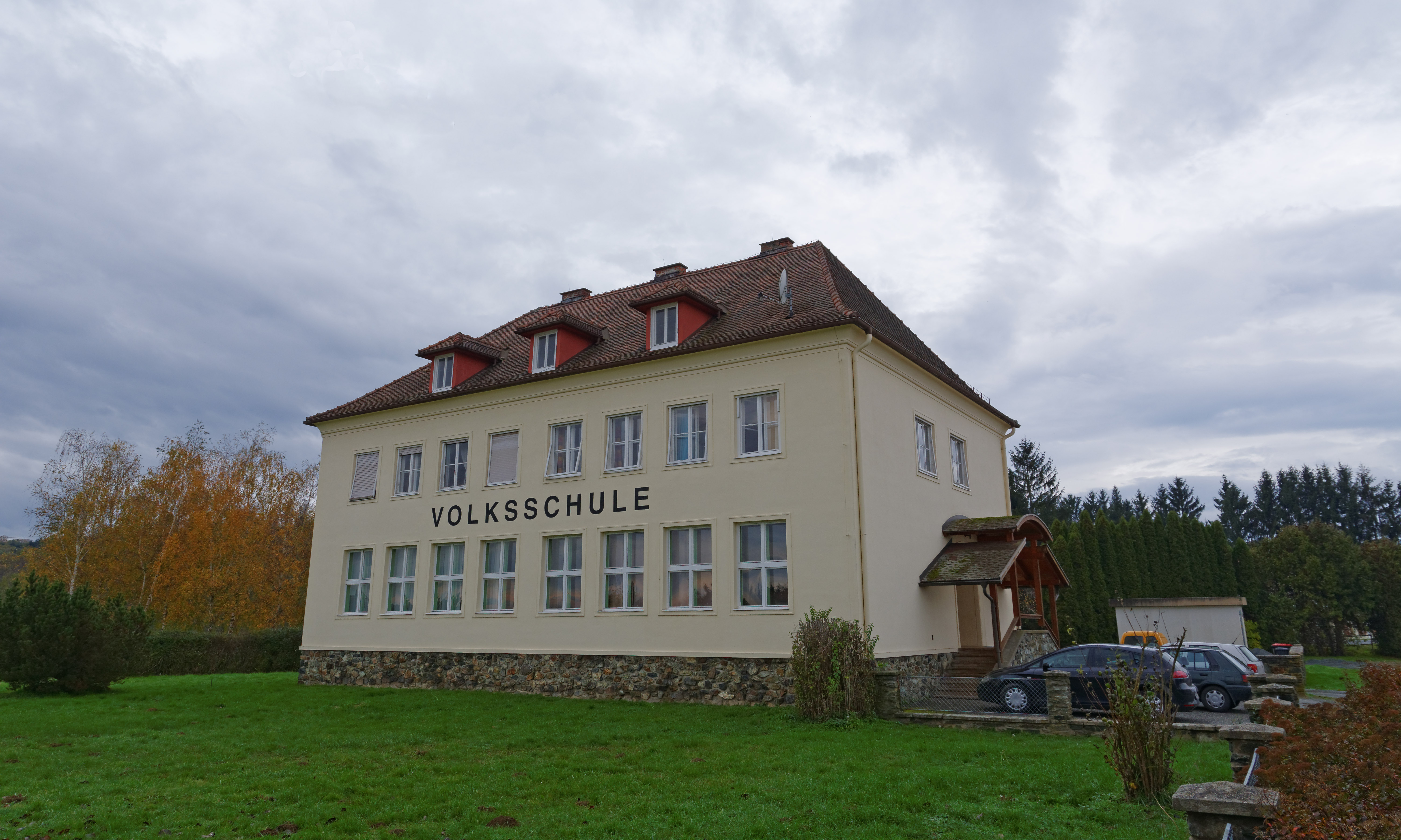 Elementary school in Tobaj, Burgenland, Austria